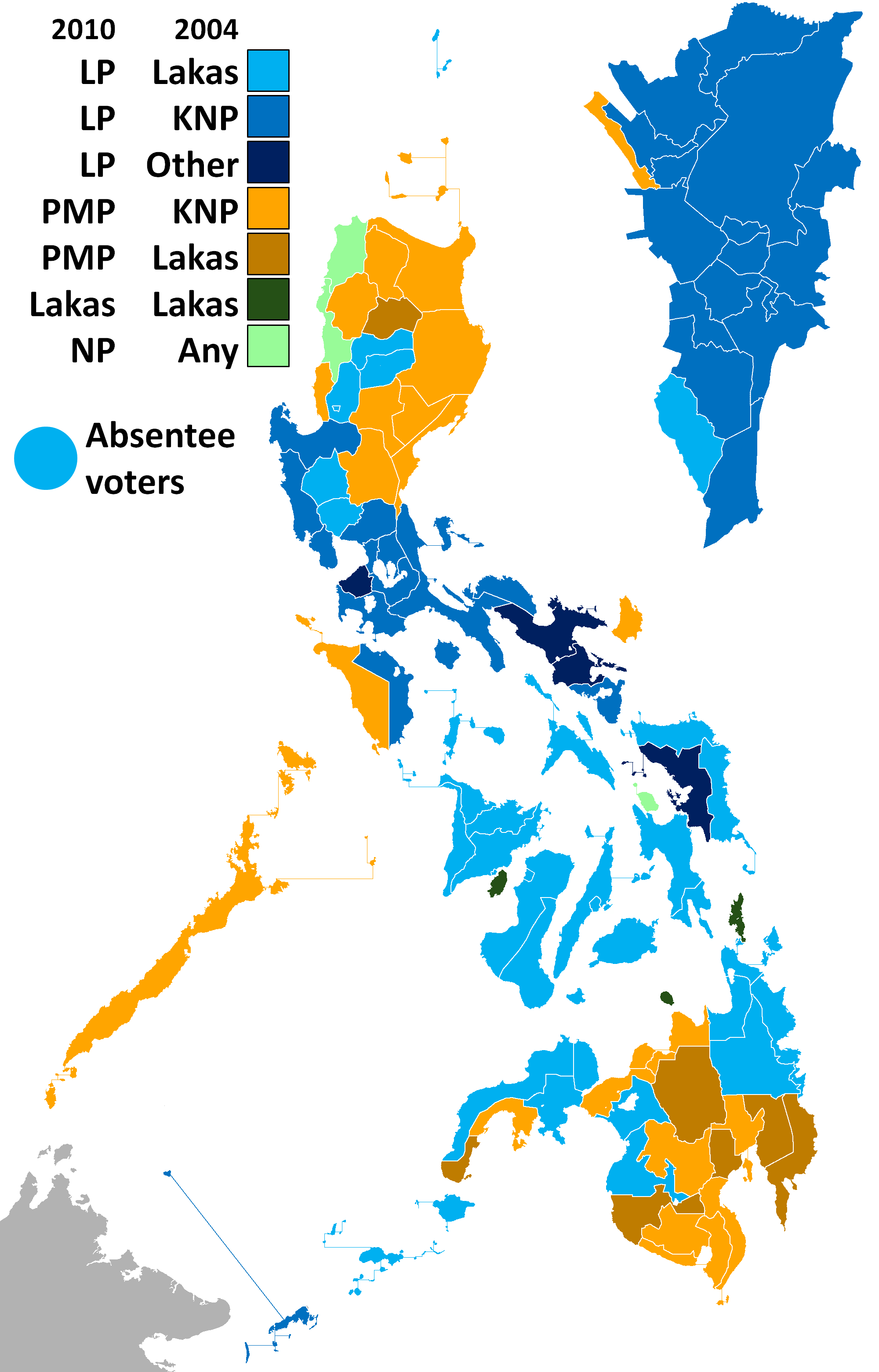 Swing during the Philippine presidential election.